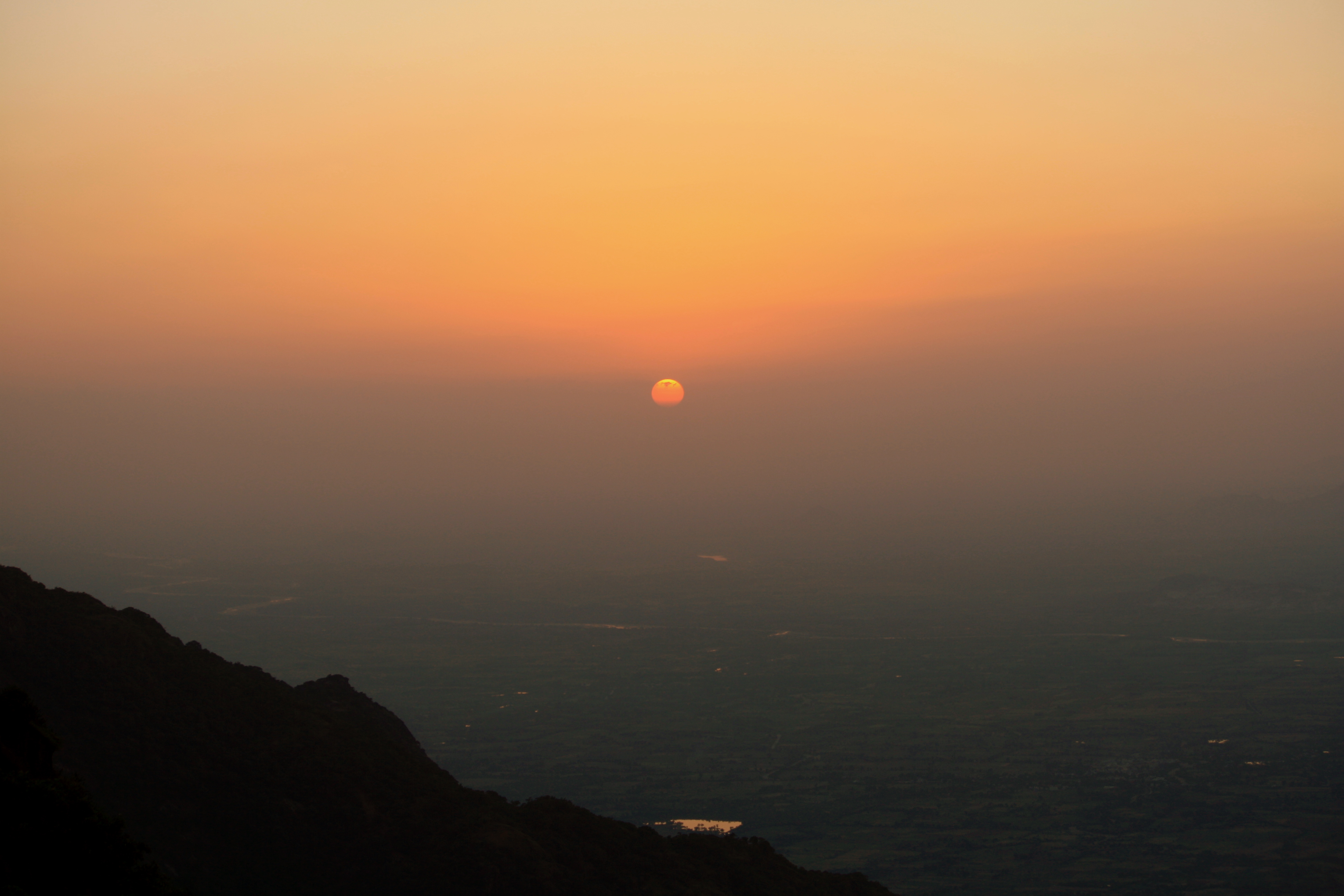 Beautiful sunset evening at Mount Abu